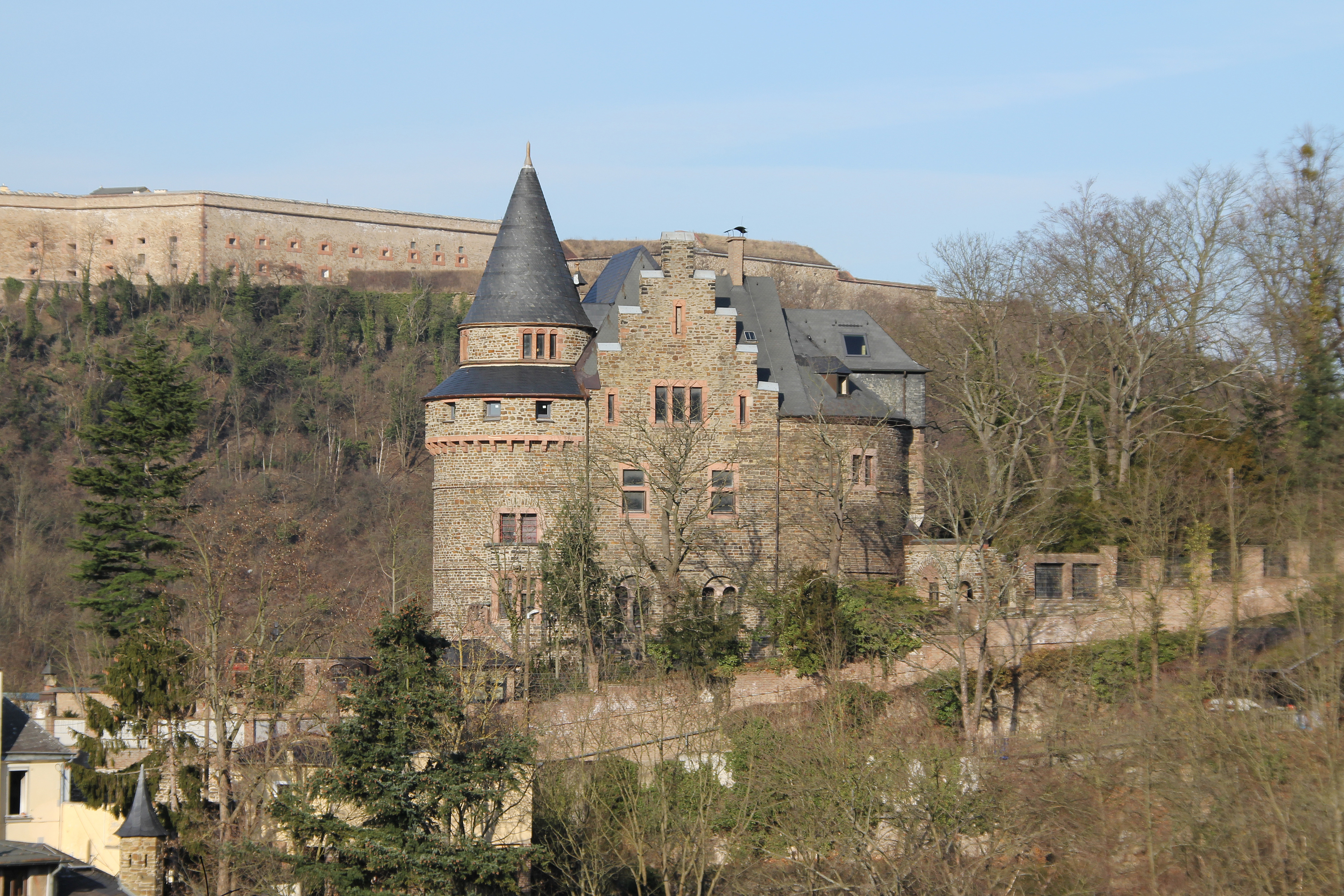 Rheinburg in Koblenz-Ehrenbreitstein